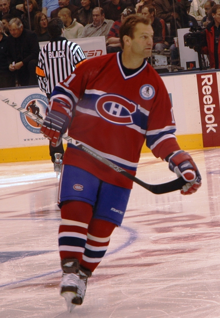 Kirk Muller played with Montreal Canadiens Alumni at the Legends Clasic in Toronto